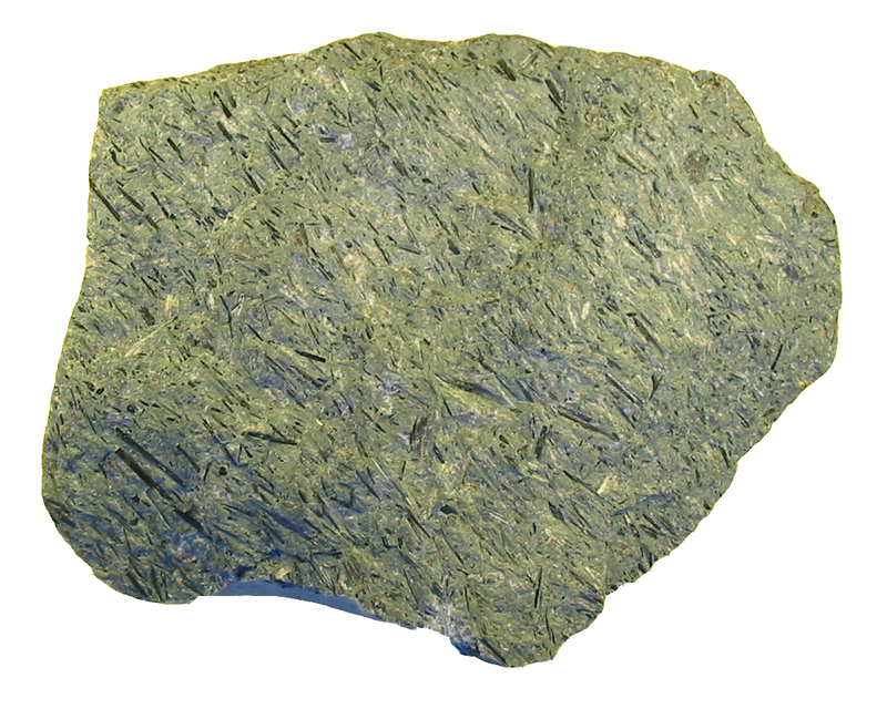 Siim Sepp, 2005 Diameter of rock sample is app. 20 cm. Rock name is tinguaite (variety of phonolite) and it is from Sweden. Dark needle-like minerals are aegirine phenocrysts.